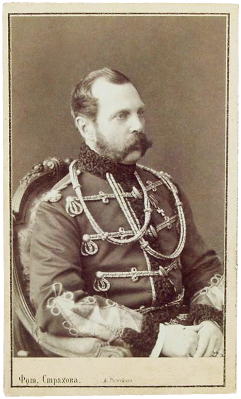 Imperial Russian photograph of Alexander II of Russia